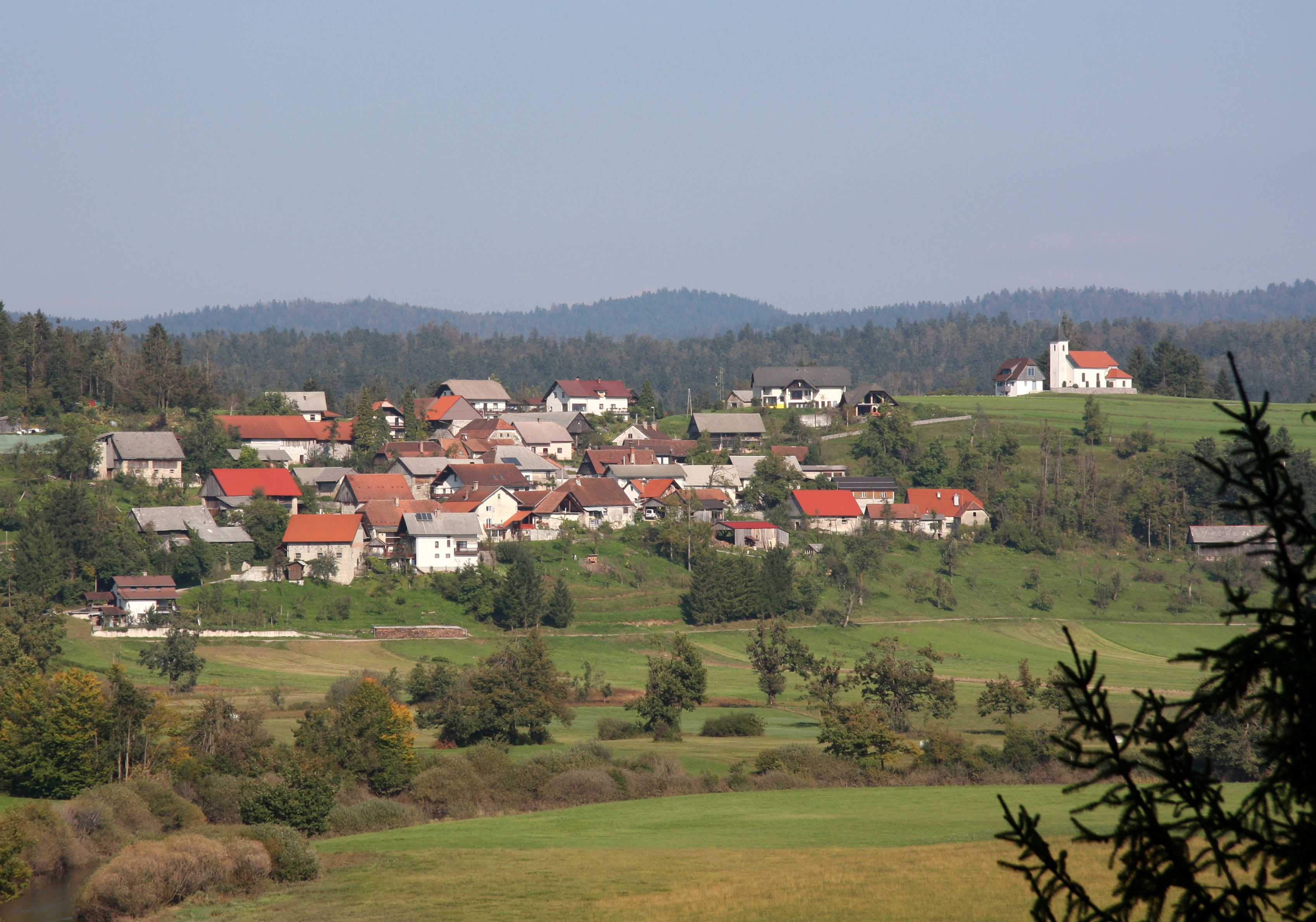 Jakovica, Slovenia